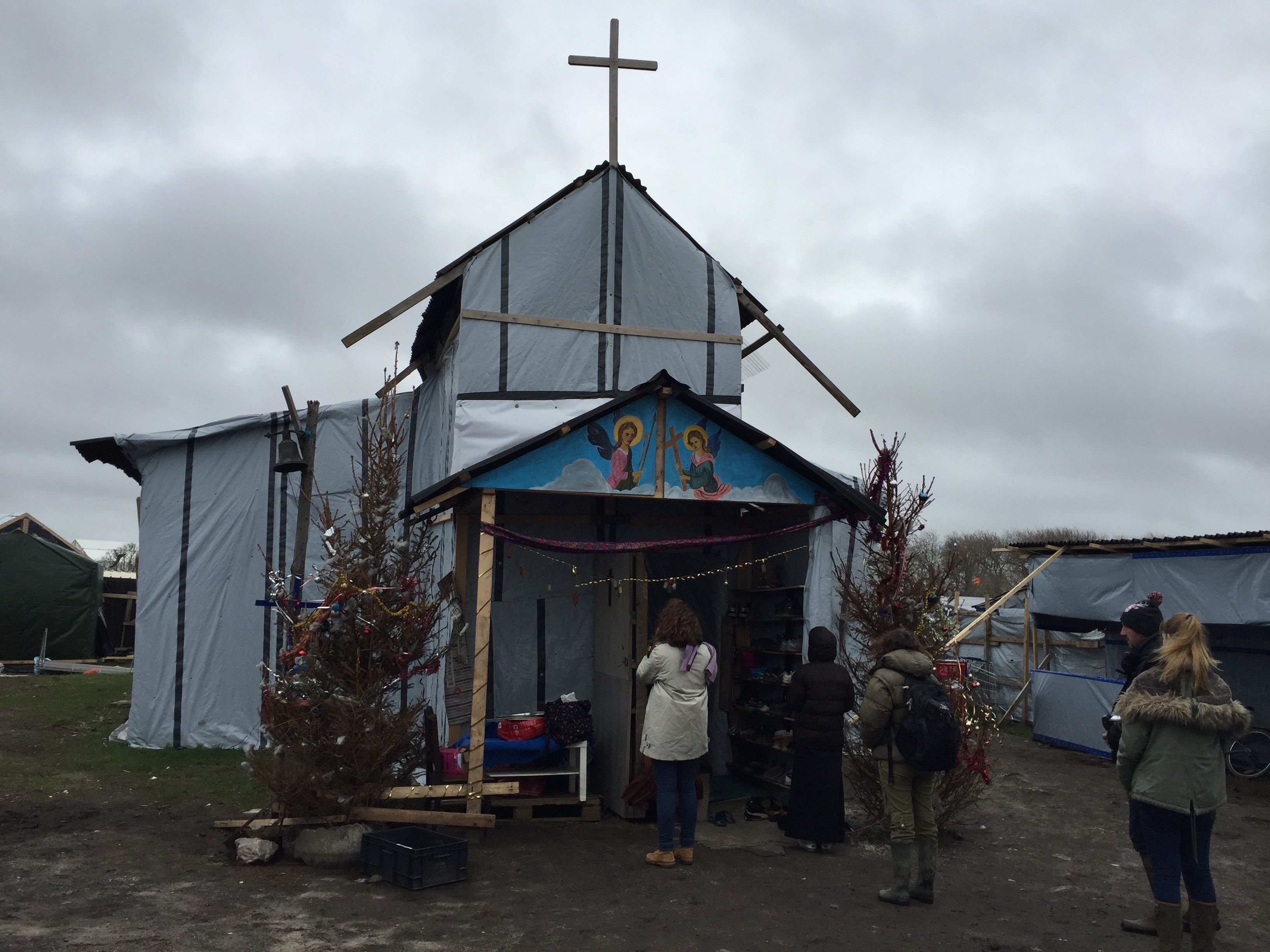 The entrance to St Michaels Church in the Calais Jungle